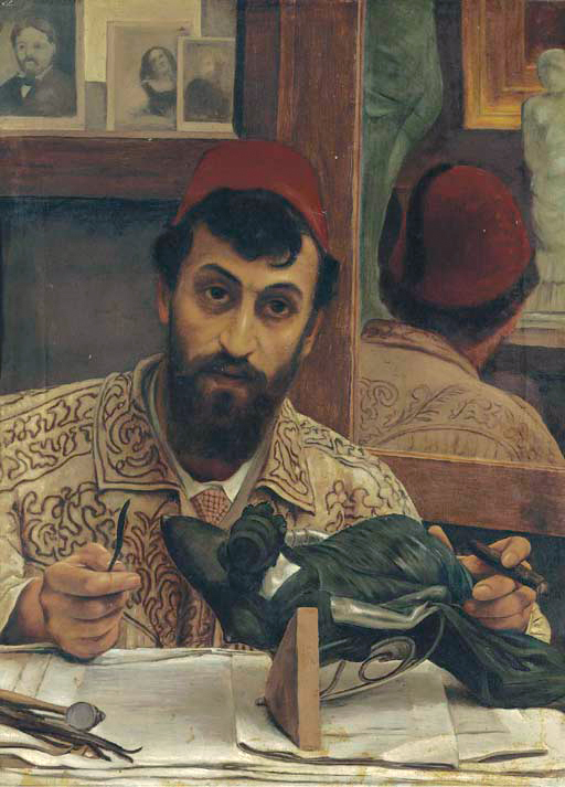 Giovanni Battista Amendola oil on canvas 75 x 54.6 cm signed t.l.: L. Alma Tadema op. CCLIV